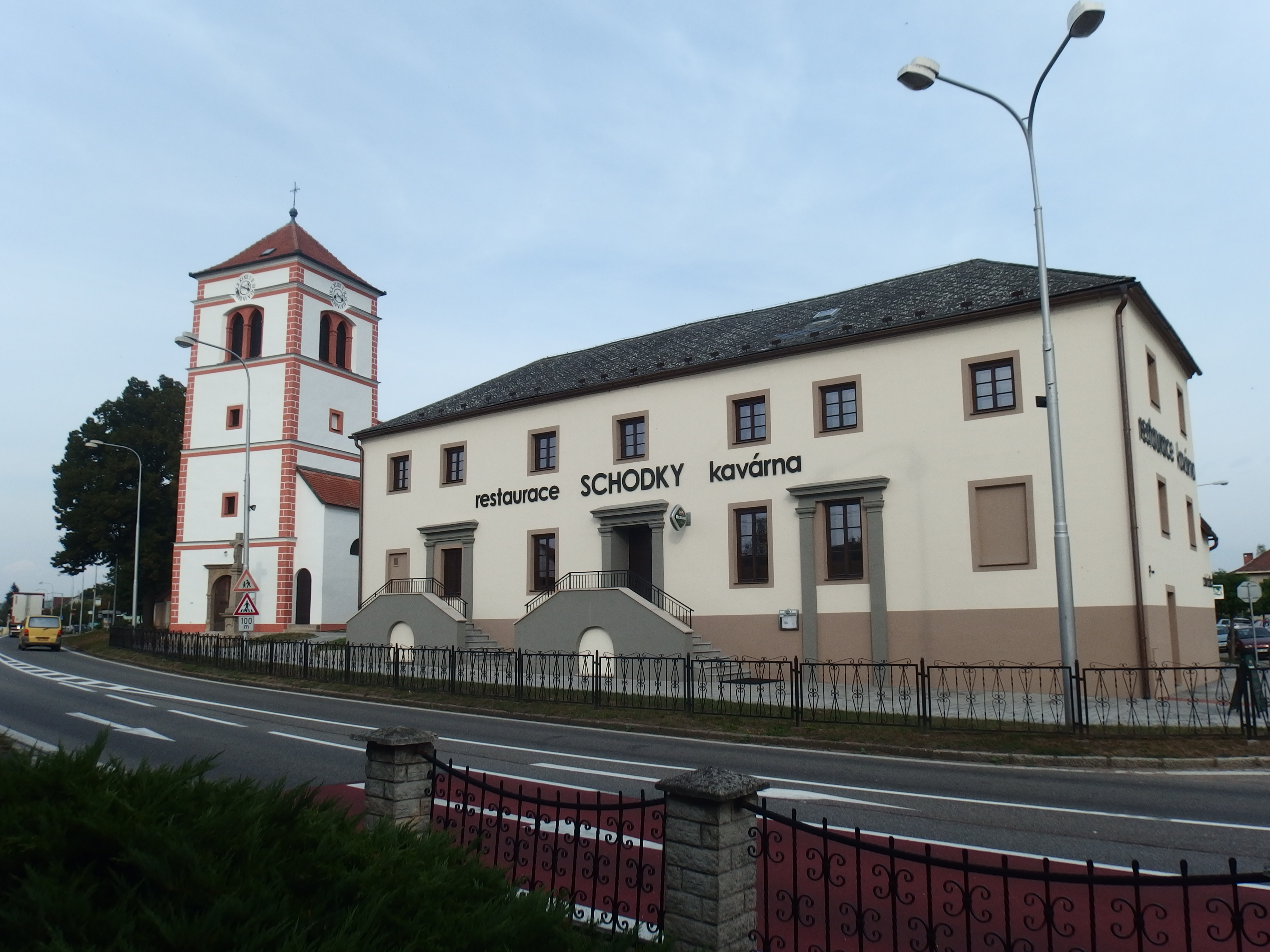 Tlumačov, Zlín District, Czech Republic.